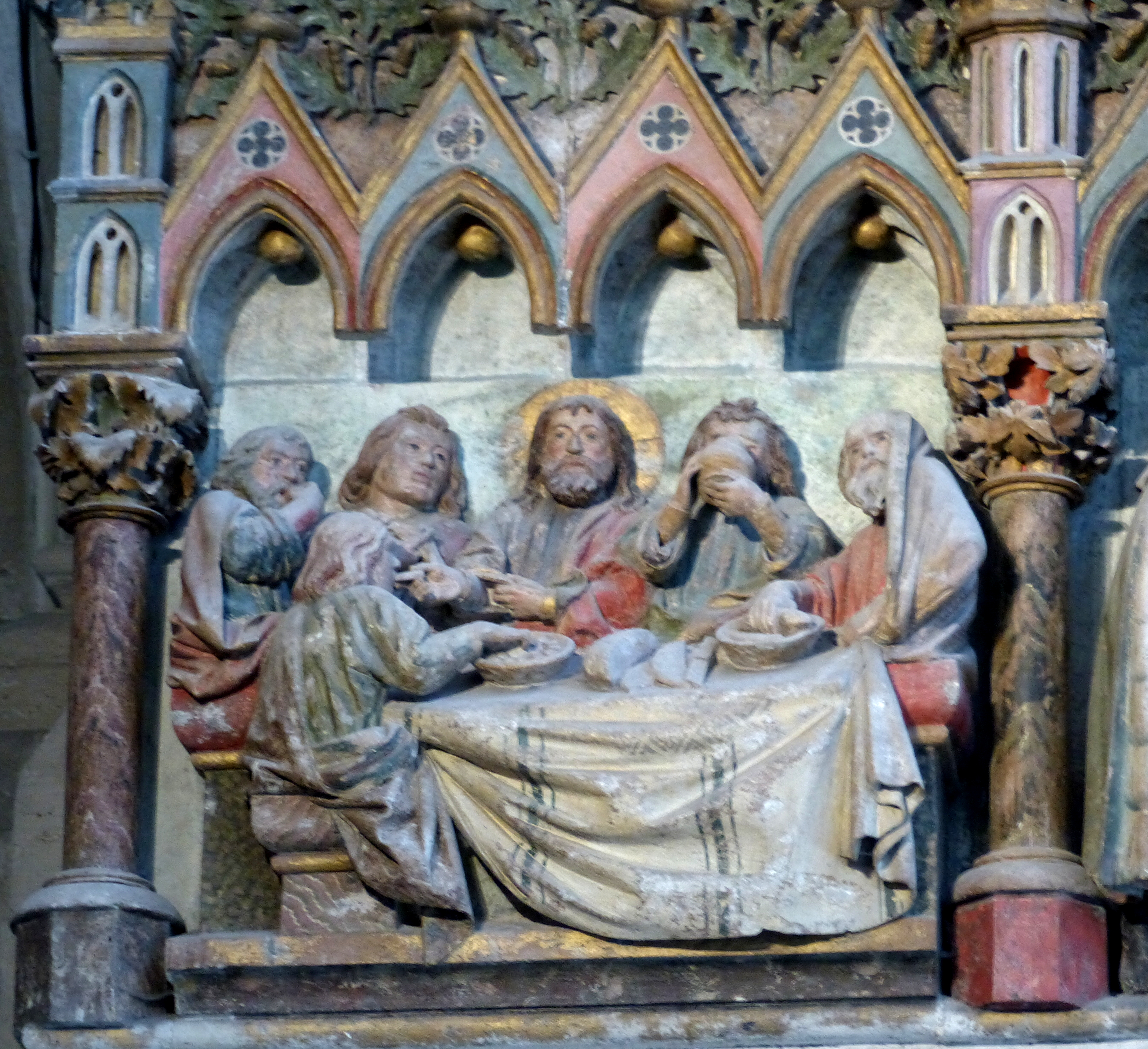 Naumburg ( Saxony-Anhalt ). Cathedral: Rood screen ( 1250 ) of the West Choir - Last supper